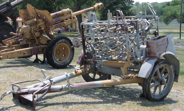 A 30 cm Raketenwerfer 56 at the US Army Field Artillery School, Ft. Sill, OK